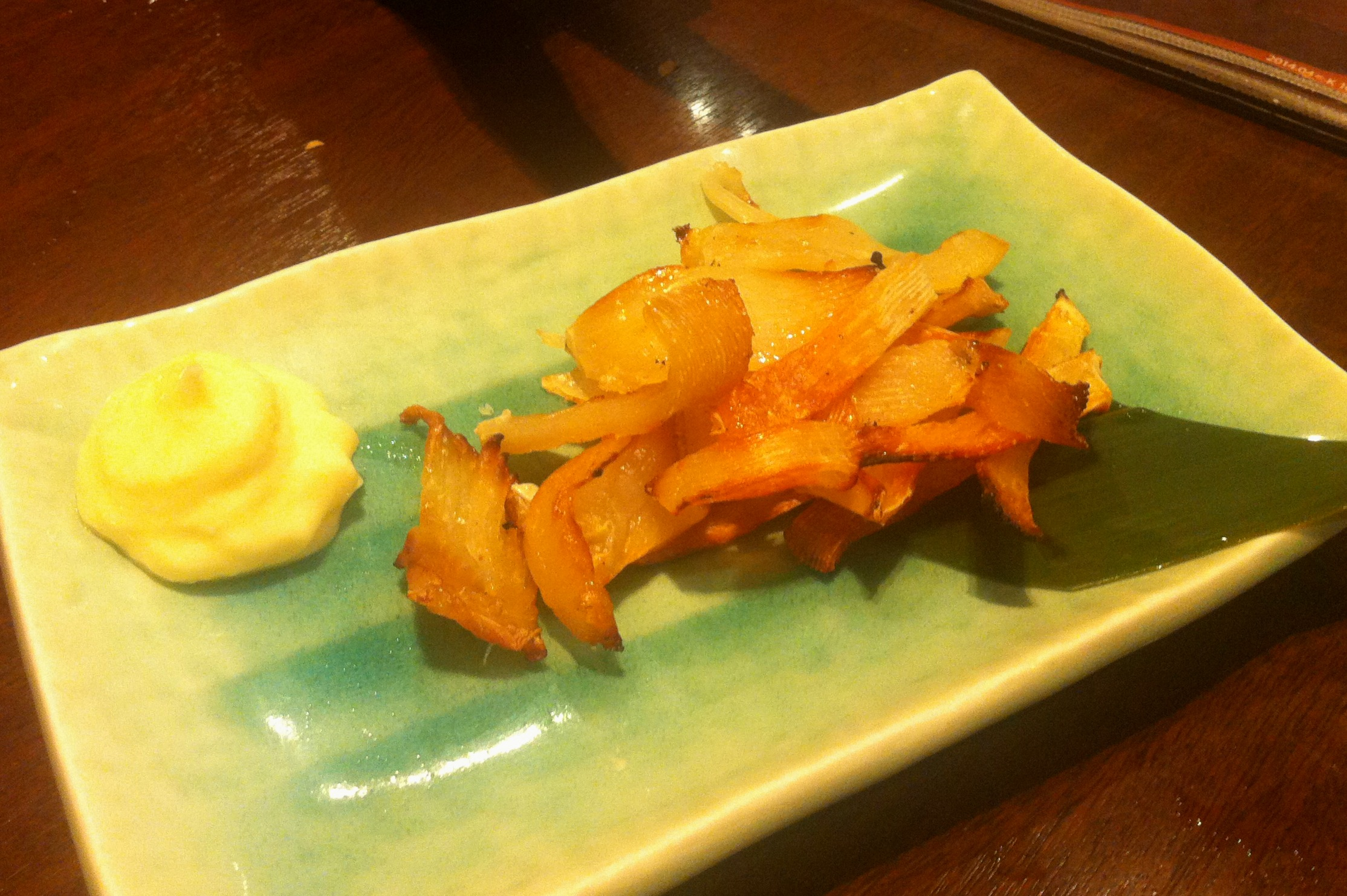 エイヒレ Eihire - dried strips of stingray meat